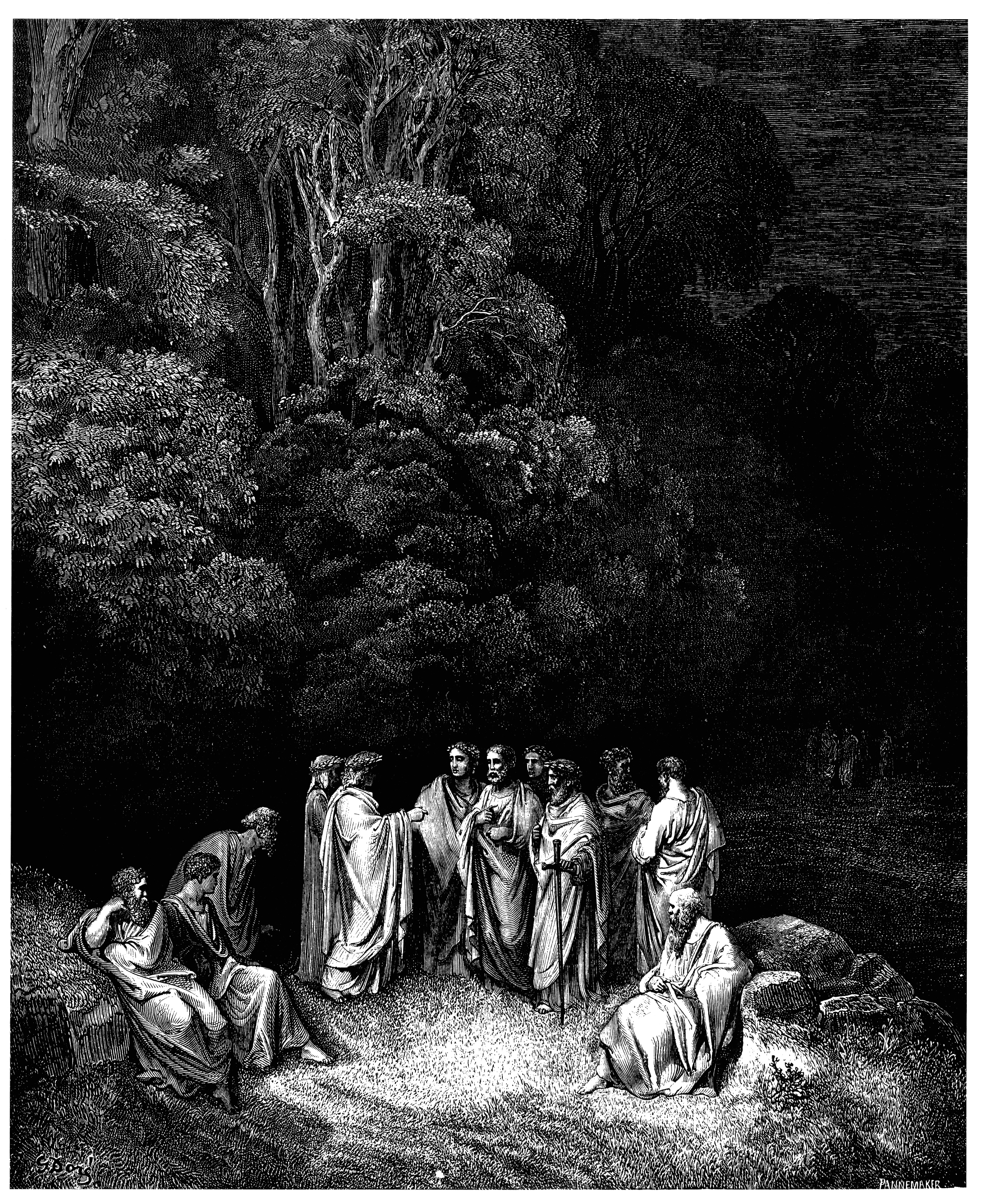 Gustave Doré's illustration to Dante's Inferno. Plate XII: Canto IV: Dante is accepted as an equal by the great Greek and Roman poets. "Thus I beheld assemble the fair school / Of that lord of the song pre-eminent, / Who o'er the others like an eagle soars." (Longfellow's translation).